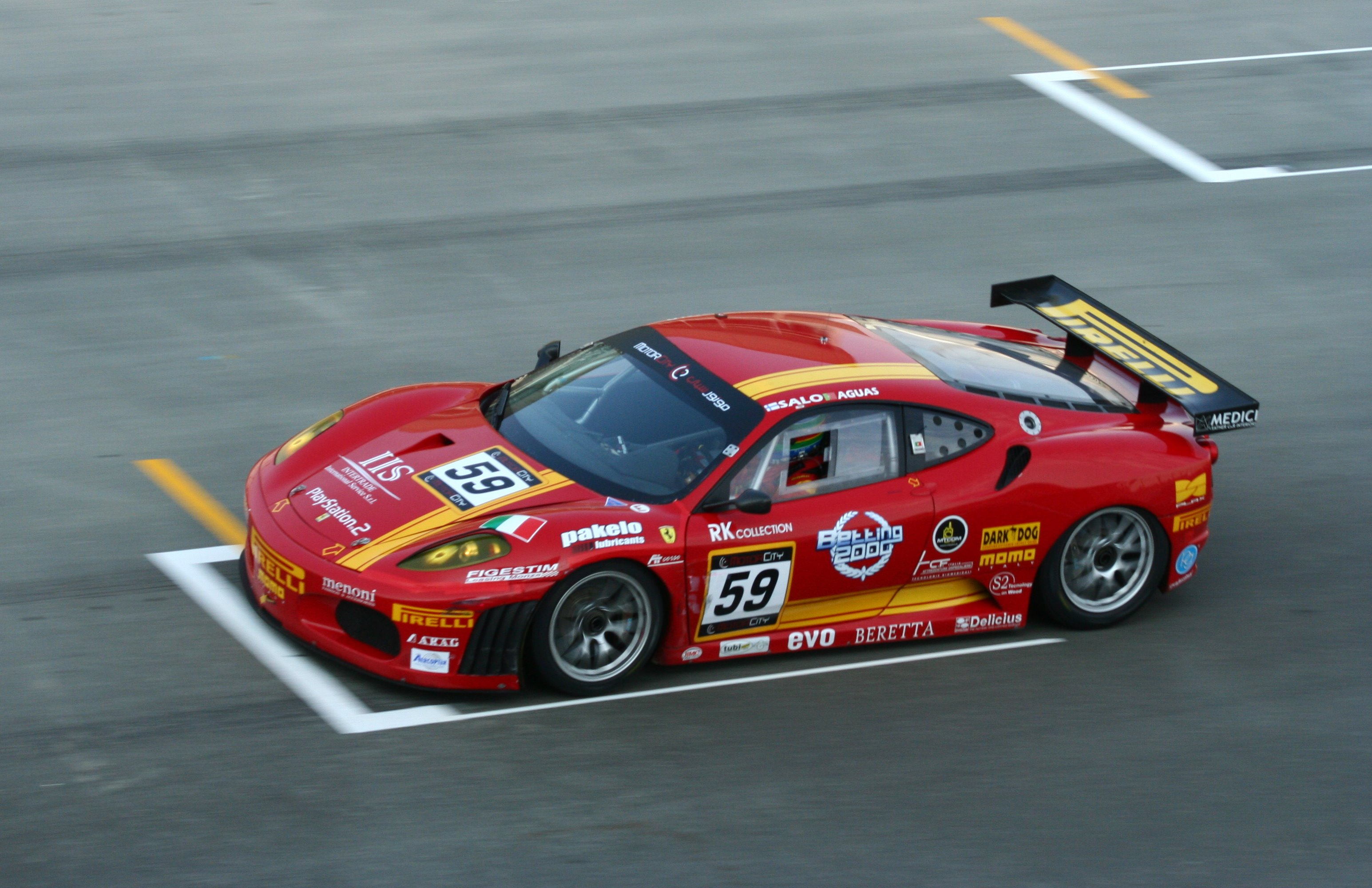 AF Corse's Ferrari F430 at the 2006 FIA GT Motorcity 500km